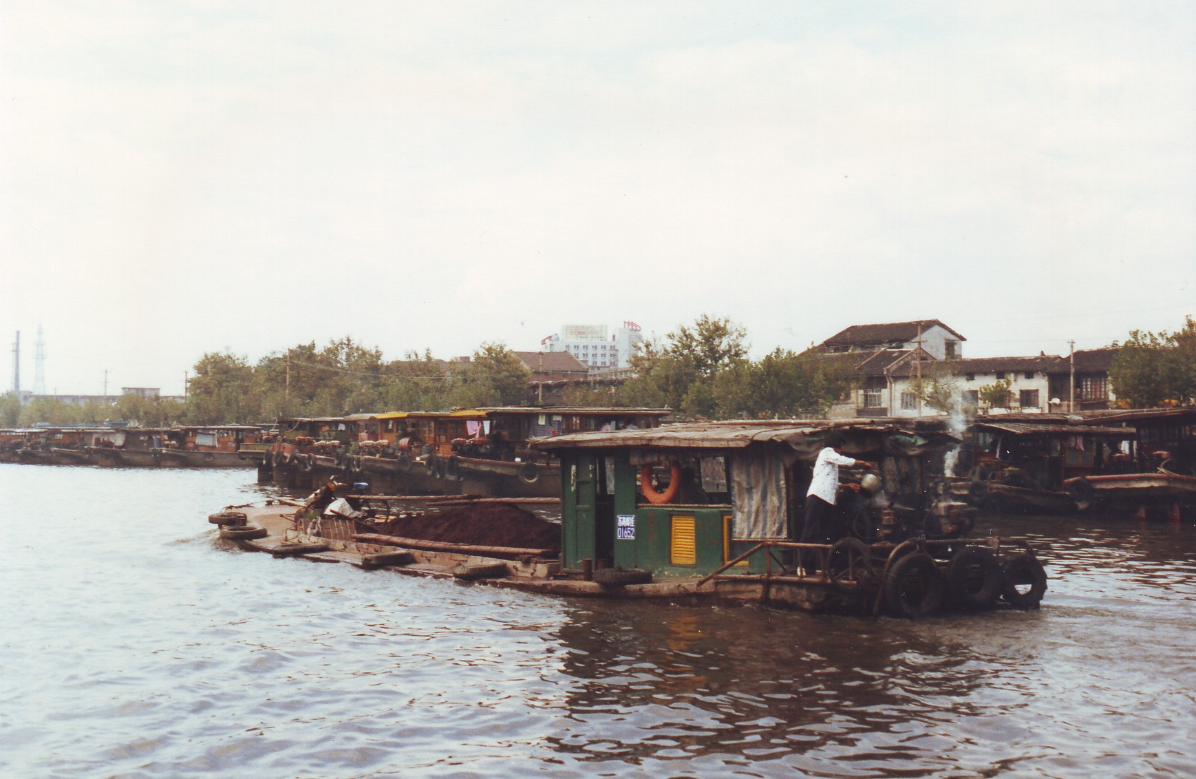 Chinese Grand Canal in Wuxi, 1995